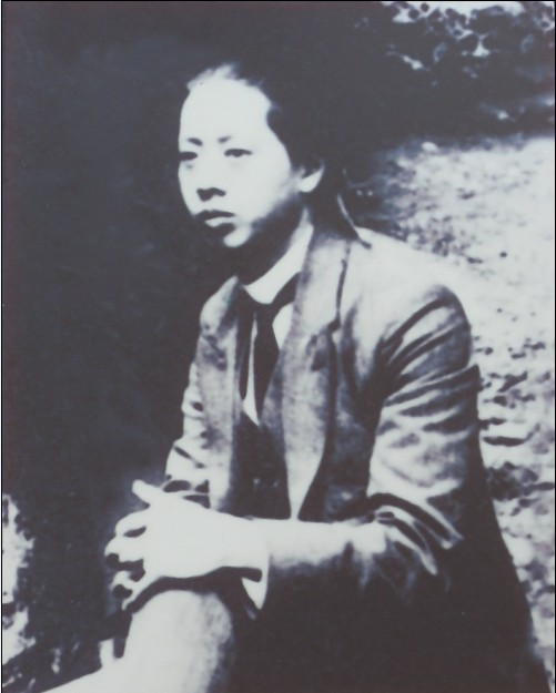 Xiao Zisheng (22 August 1894 - 21 November 1976), was a Chinese educator and one of the founders of the Xinmin Society. He graduated from Hunan First Normal University, where he studied alongside Mao Zedong and Cai Hesen.